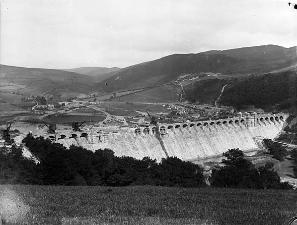 1 negative : glass, dry plate, b&w ; 16.5 x 21.5 cm.